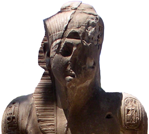 The head and shoulders of a full-sized image of a statue already on Wikimedia ( which has been released into the public domain. Image has been cropped, contrast enhanced and the background removed